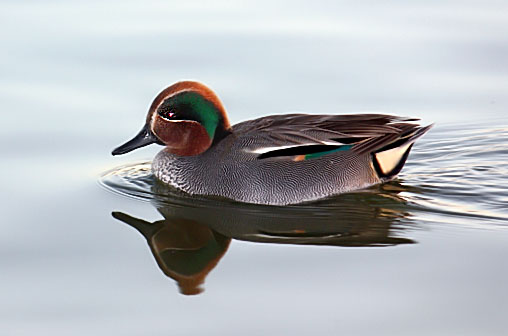 Common Teal (in Hebrew: "Sharshir") in the Safari, Ramat-Gan, Israel